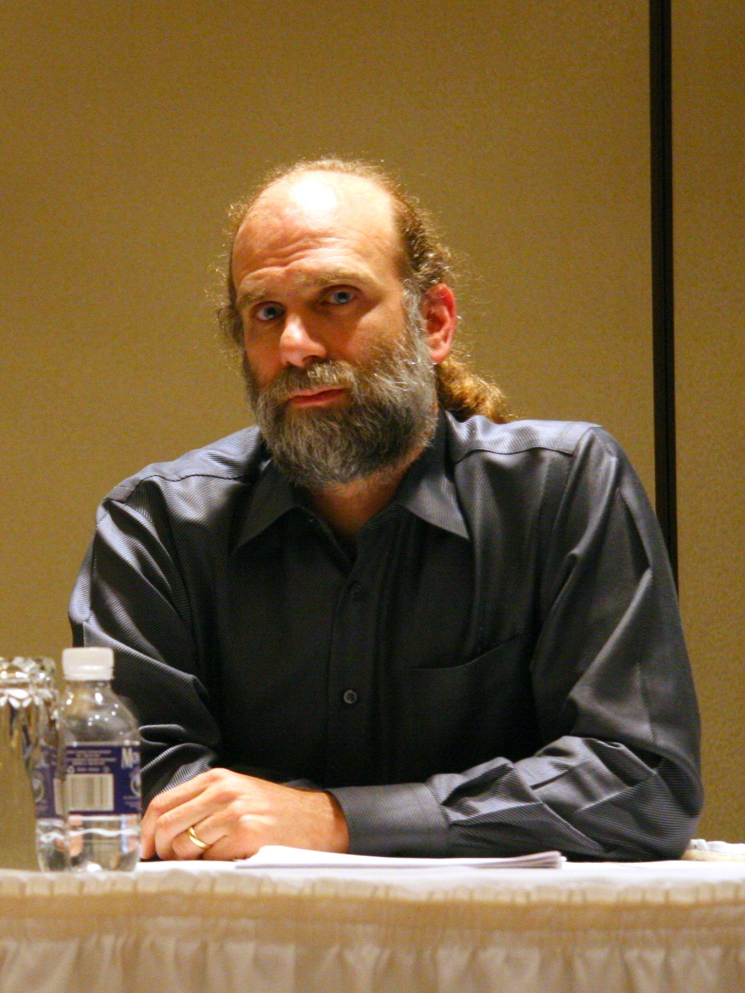 Bruce Schneier at CFP 2007: Open panel on Net Freedom.